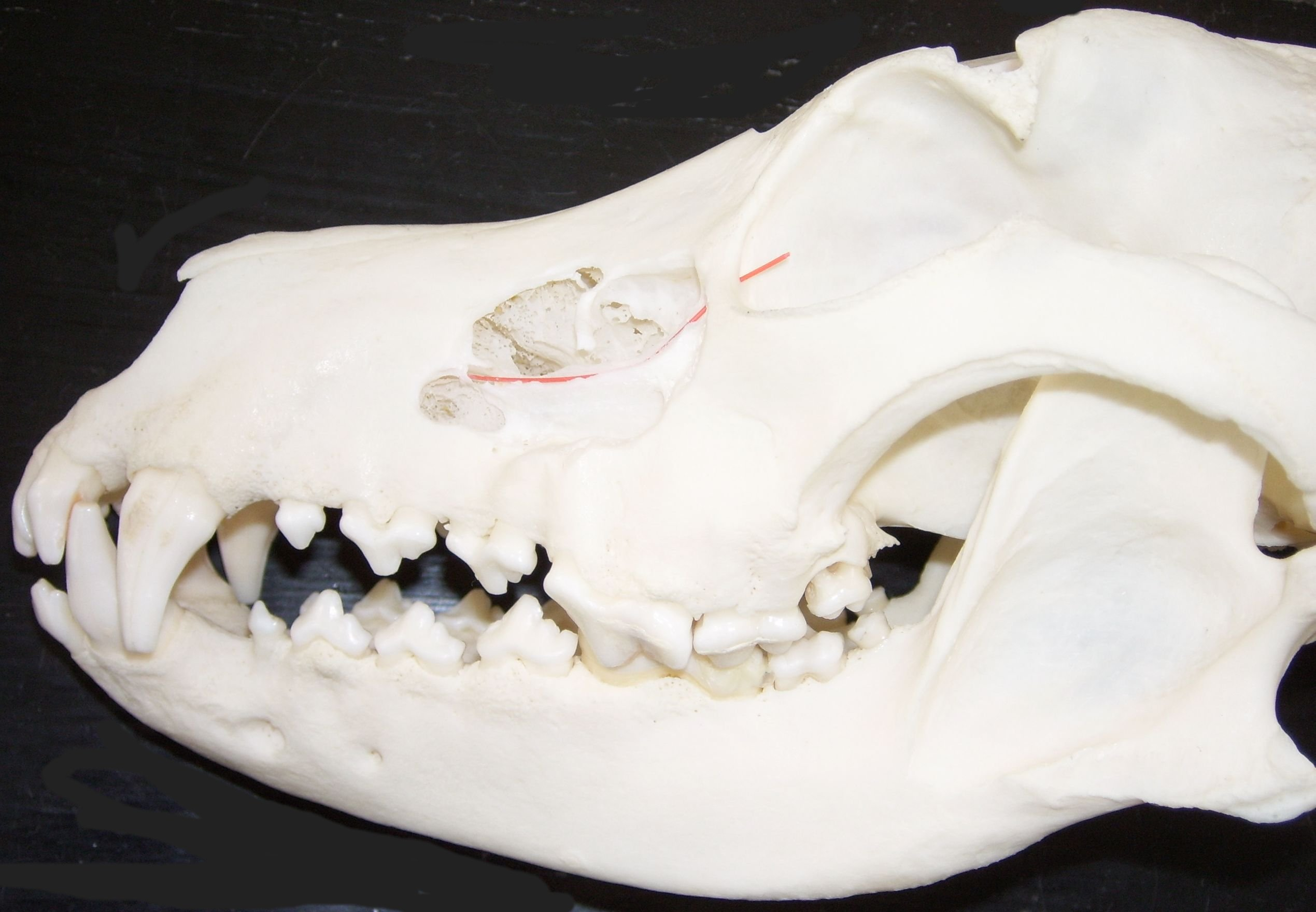 course of the nasolacrimal duct in a dog, maxillary sinus opend.